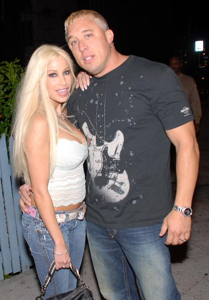 Gina Lynn and Travis Knight on Wicked Pictures party at the House of Blues on Sunset Blvd.